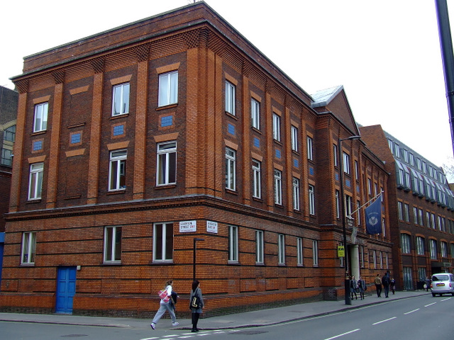 Territorial Army building, Westminster